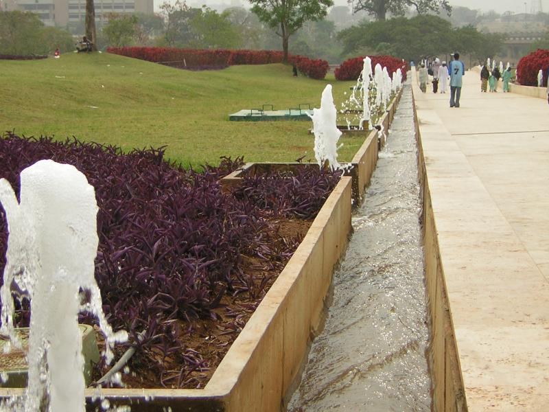 My Own work, Millennium park Abuja.